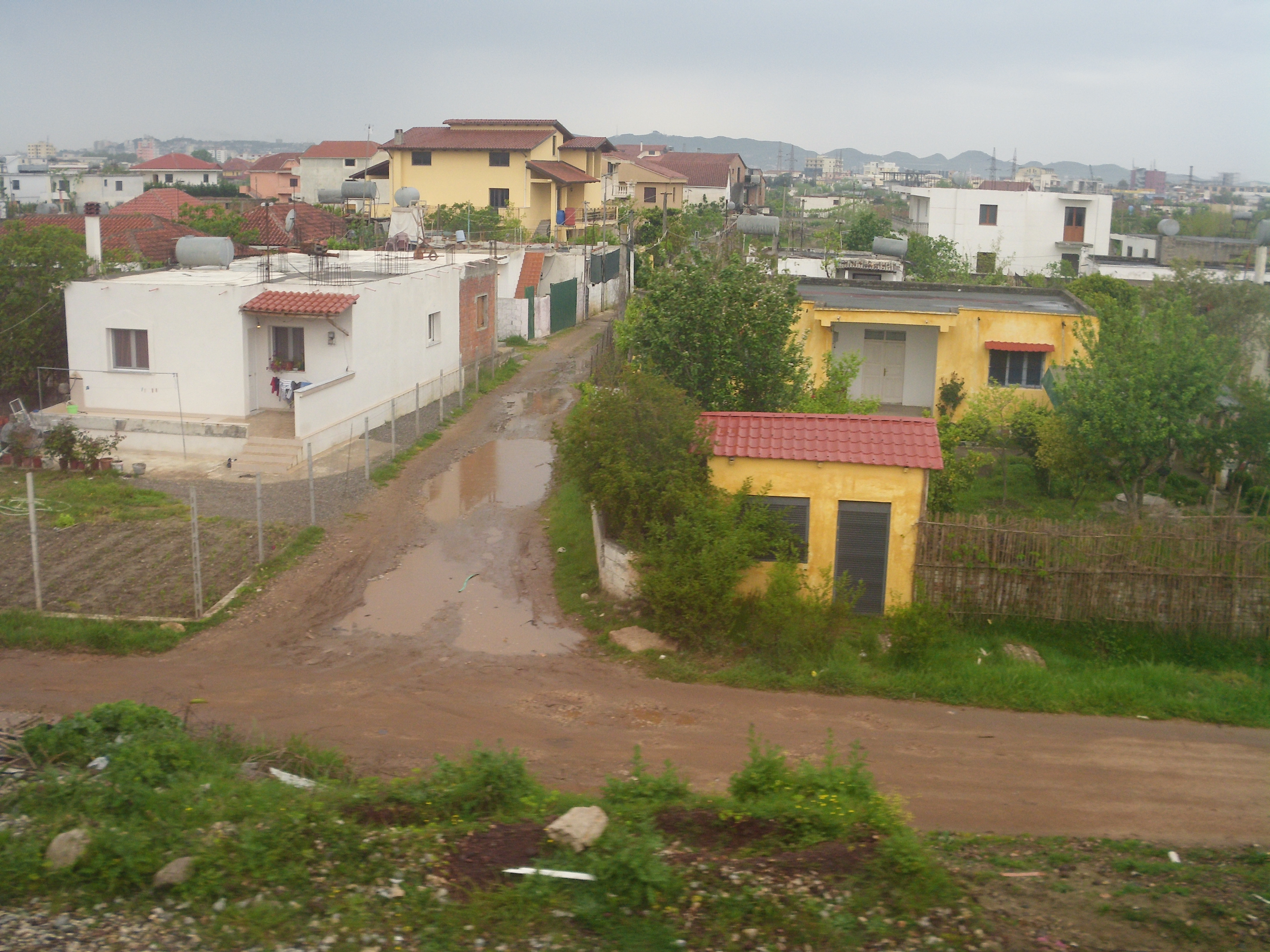 Residential area in Shkozet, a suburb of Durrës, Albania, as seen from a train on arrival from Vorë.